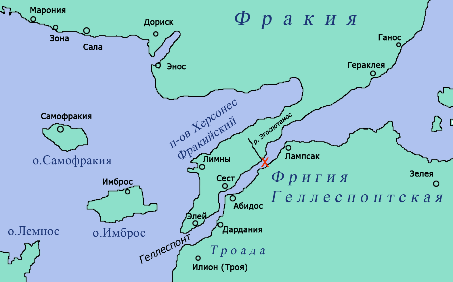 Map for Battle of Aegospotami